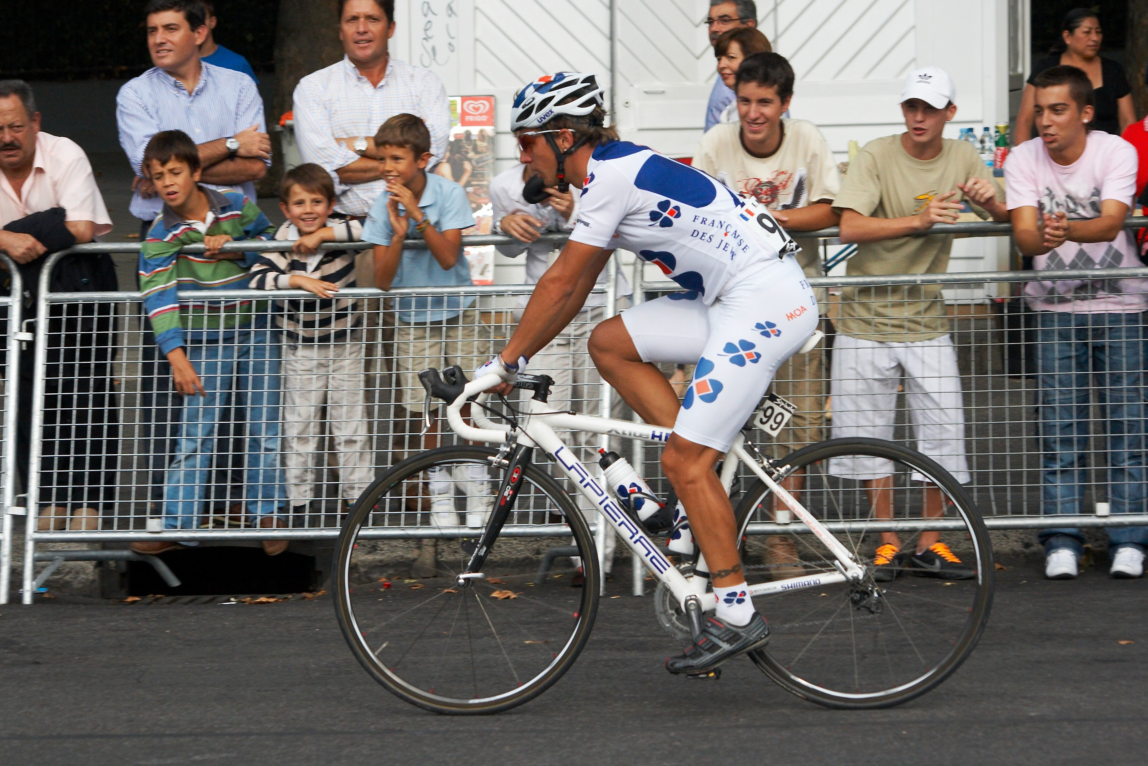 MOUREY Francis (99/FRA), 2008 Vuelta a España, Madrid, Spain.